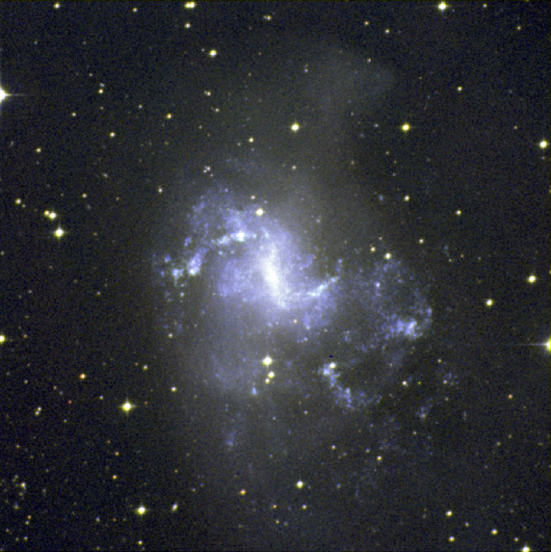 Larger region of the sky around the starburst galaxy NGC 1313 showing the larger scale disturbance of the galaxy. The galaxy shows some large deformations in the lower right part of the image, while diffuse matter is also present at the top of the image. All this signals a very tormented past which could be at the origin of the burst of star formation.The image was made from data from the Digitized Sky Survey, obtained through blue, red and infrared filters. The "Second Epoch Survey" of the southern sky was made by the Anglo-Australian Observatory (AAO) with the UK Schmidt Telescope. Plates from this survey have been digitized and compressed by the ST ScI. The data were extracted and colour-composed by Henri Boffin (ESO). ID: phot-43b-06 Press Release: ESO 43/06 Long Caption Object: NGC 1313 Telescope: UT1/Antu Instrument: FORS2 Size: 800x801 Credit: ESO